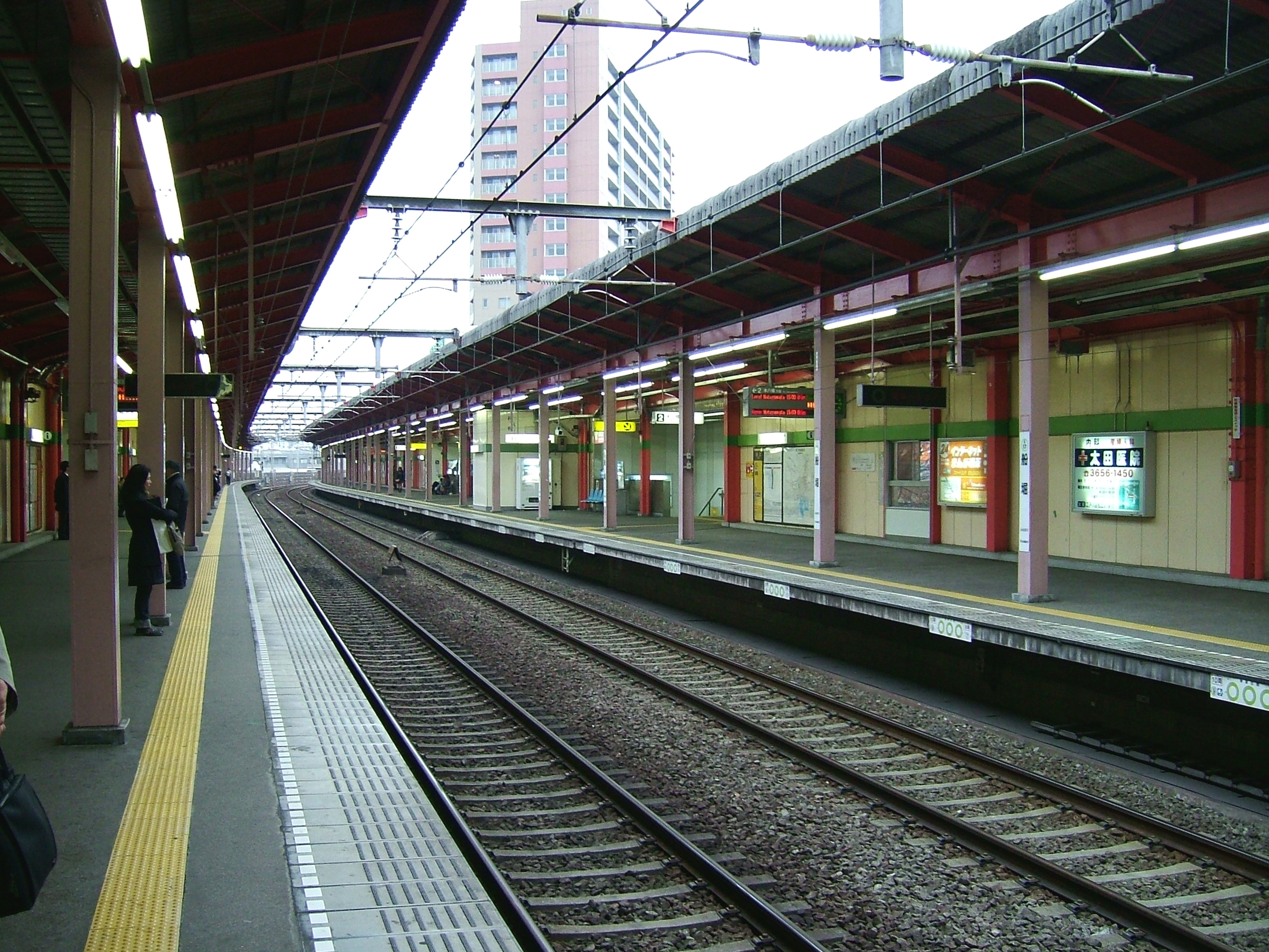 The platforms at Funabori Station on the Toei Shinjuku Line in Edogawa city, Tokyo, Japan